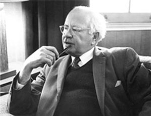 William L. Shirer in 1961